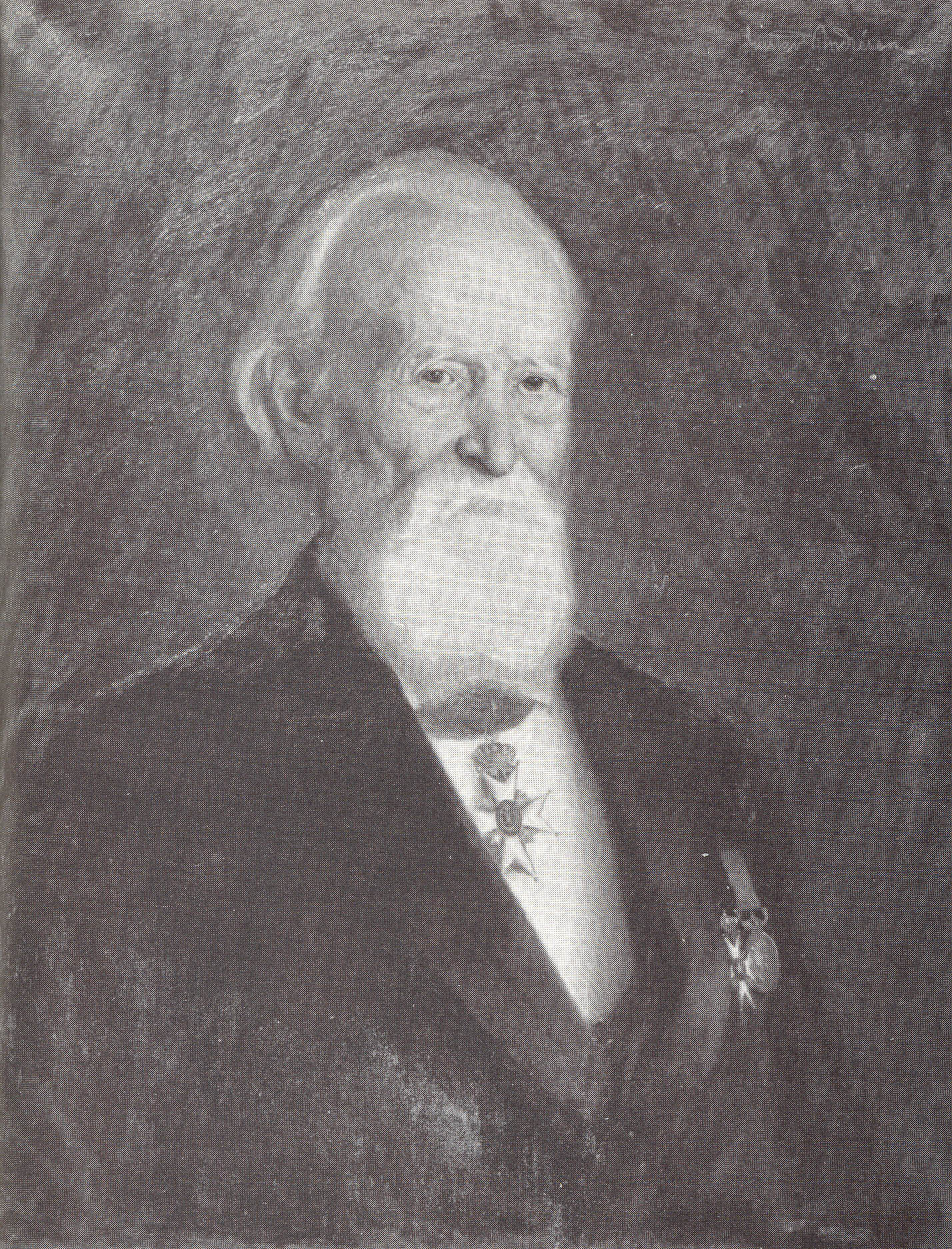 The Swedish teacher and architect Adolf Kjellström